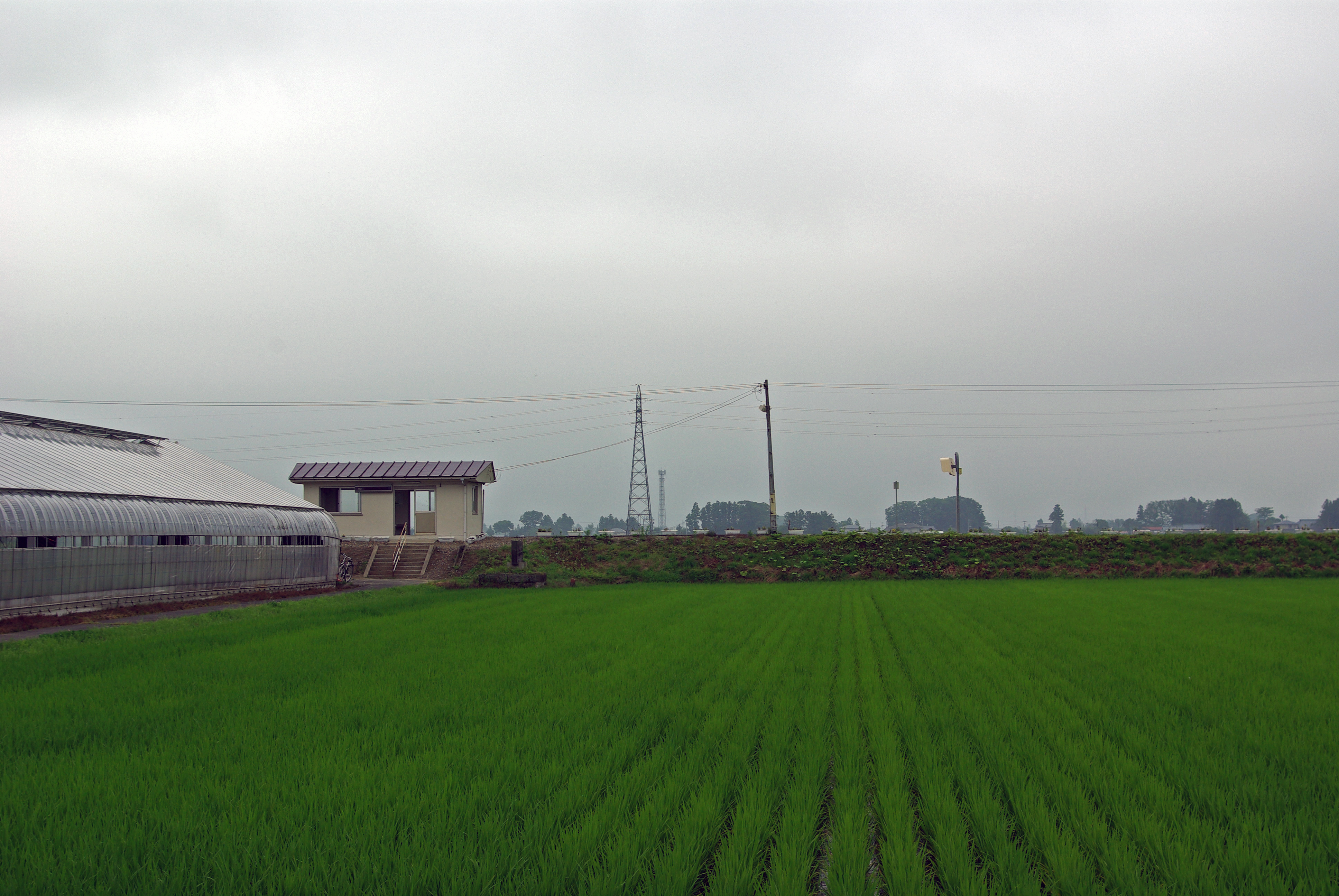 East Japan Railway Company Rikuzen-yachi Station